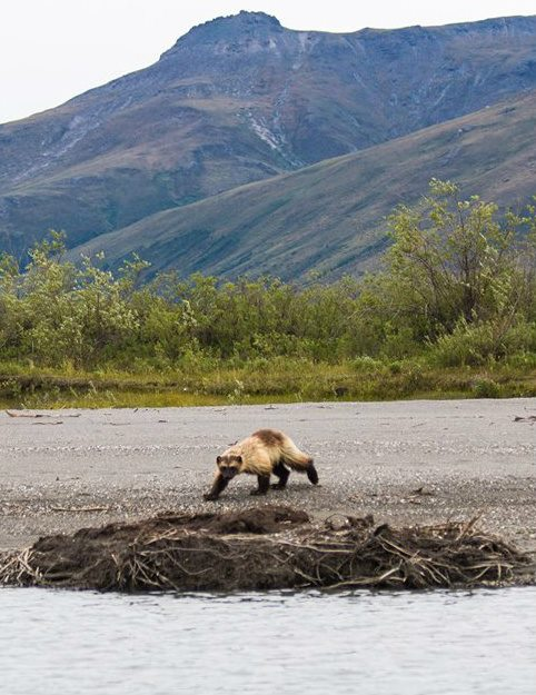 Wolverines are well known, but rarely seen animals. Famously fearless and incredibly tough, wolverines can travel over almost any terrain and will take on prey many times their size. Because they thrive in remote areas, it’s difficult to get good photos of these amazing animals. Luckily, on a recent boating trip on the Noatak River at Gates of the Arctic National Park in Alaska, National Park Service staff were able to get some pictures of this curious wolverine. Photo by S. Behrns, National Park Service.